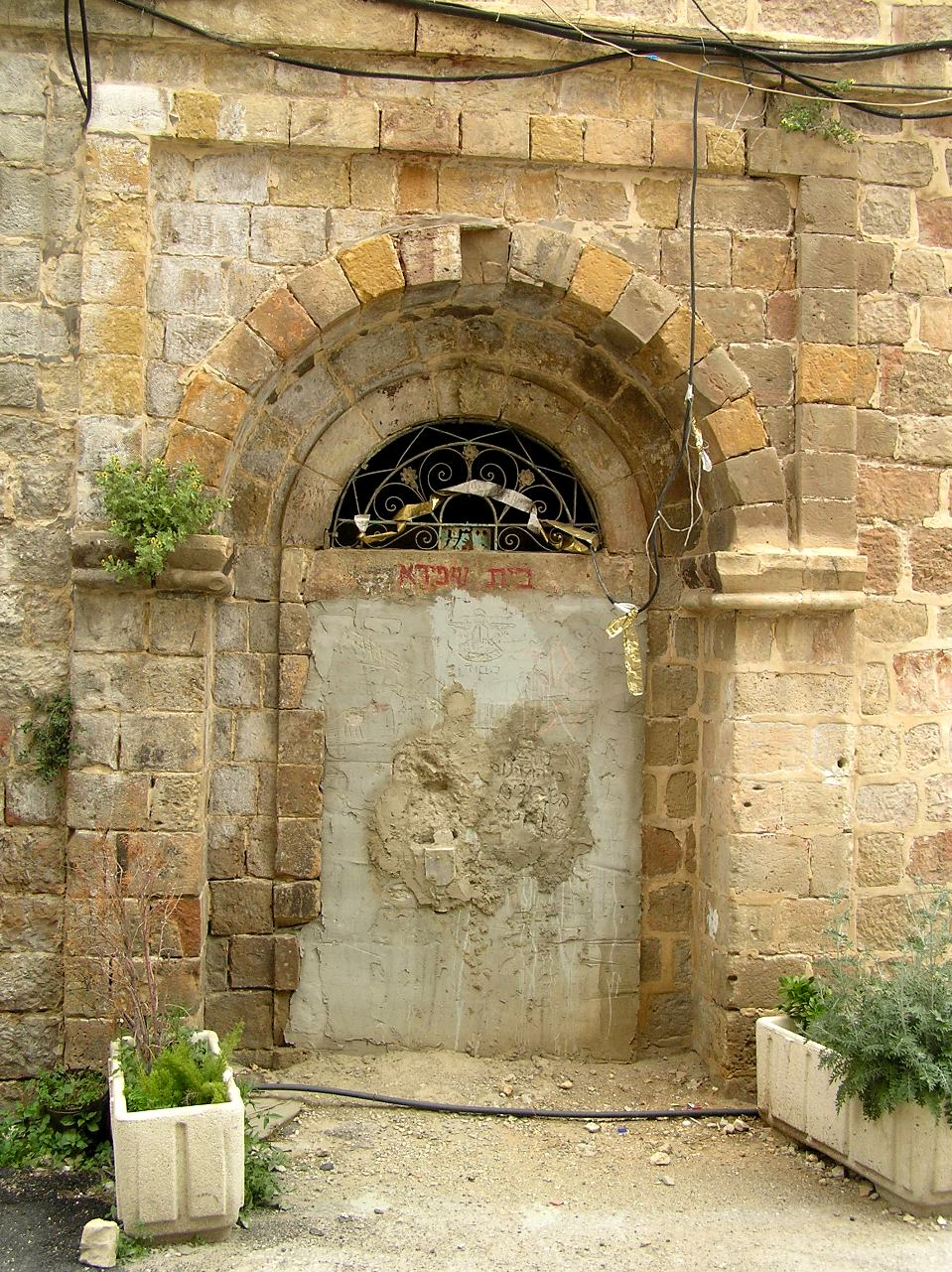 Hebron.